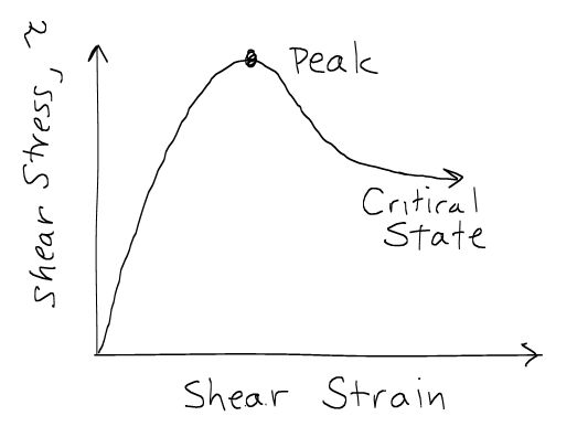 typical shear-stress shear-strain curve for a soil showing the peak and critical states